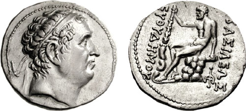 Coin of the Bactrian king Euthydemos I